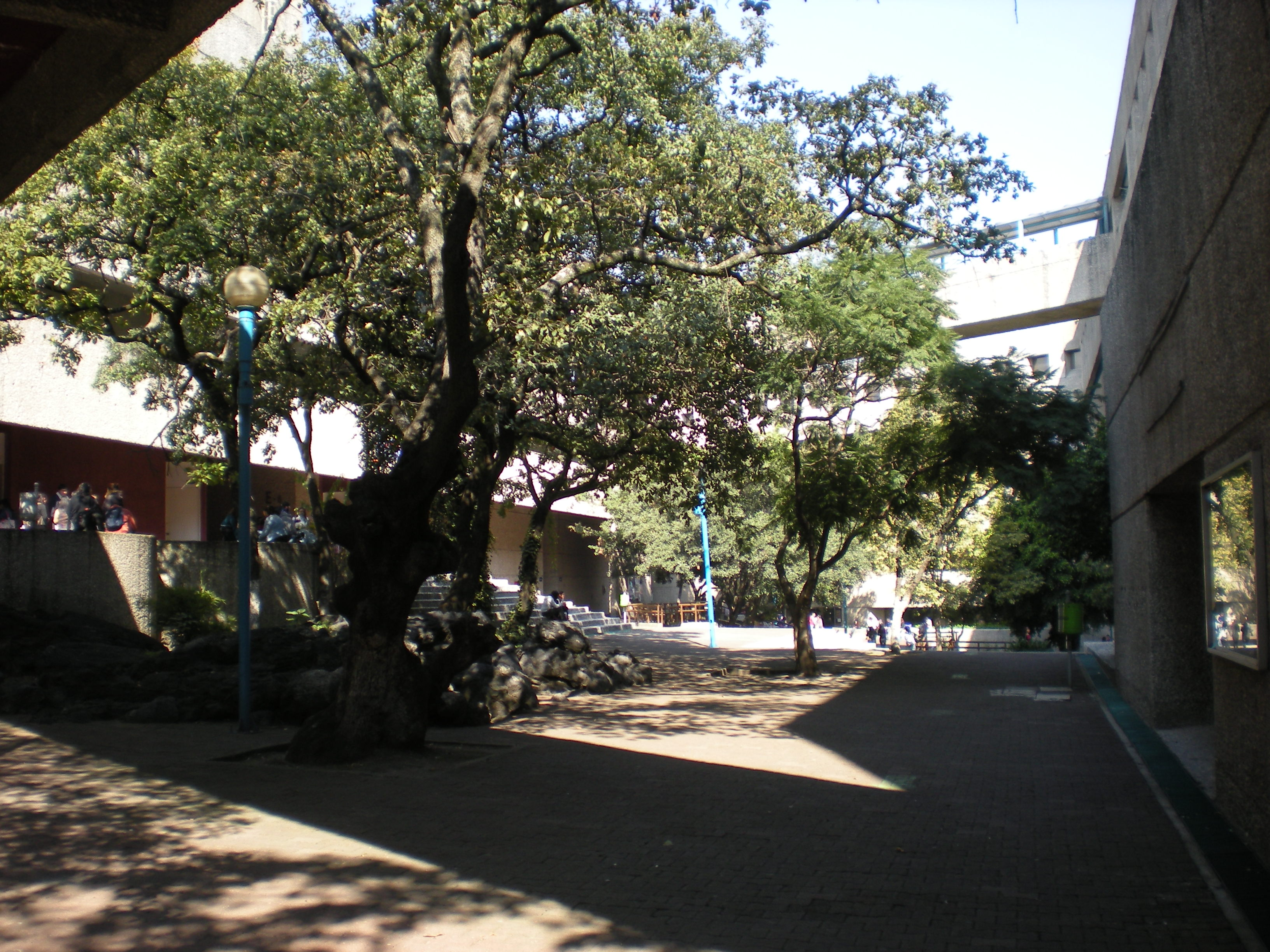 Also stair and main square, UPN México